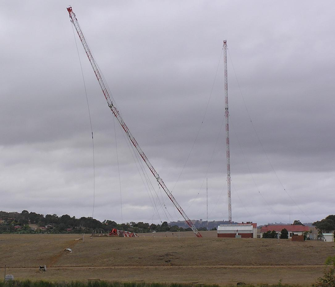 Category:Images of Canberra The three towers of the Belconnen Naval Transmitting Station at Lawson in the Belconnen district of Canberra were felled on Wednesday 20 December 2006. The western tower was felled at 3.24pm, the central and eastern towers at 4.07pm. These 600ft tall towers formed the support structure for the 44kHz VLF top-loaded vertical antenna. The station was built, and the VLF transmitter commissioned, in 1938. The tower in the far background is the Australian Broadcasting Corporation's "2CN" broadcast radio tower. I took this picture. Peter Ellis 02:48, 22 December 2006 (UTC)